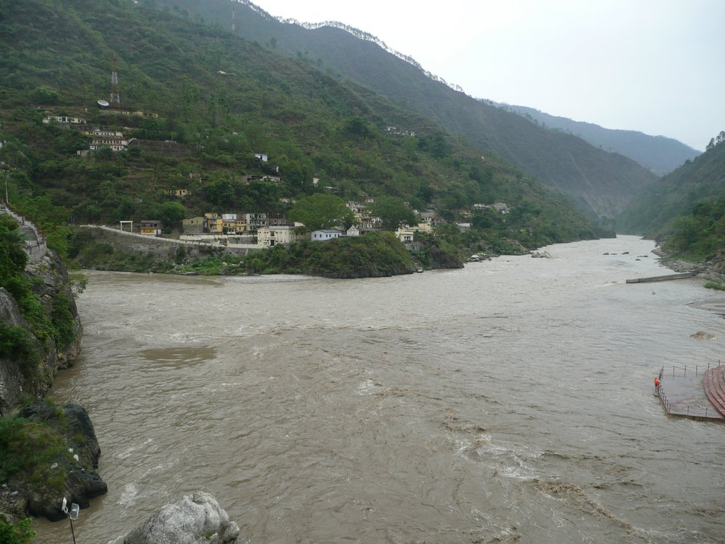 The Sangam At Karnprayag